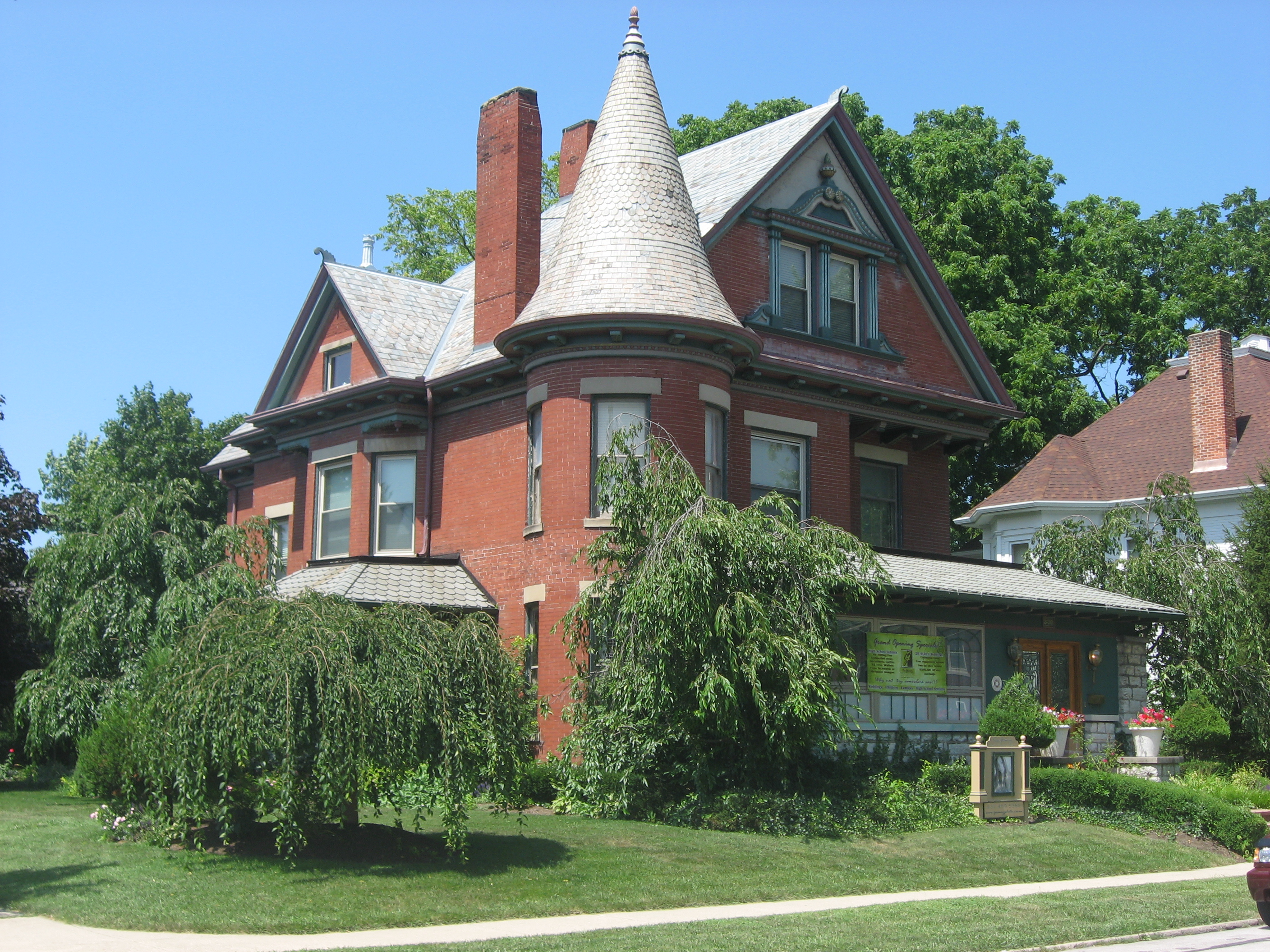 Front and western side of the Dr. Donovan Robeson House, located at 330 W. Fourth Street in Greenville, Ohio, United States. Built in 1902, it is listed on the National Register of Historic Places.